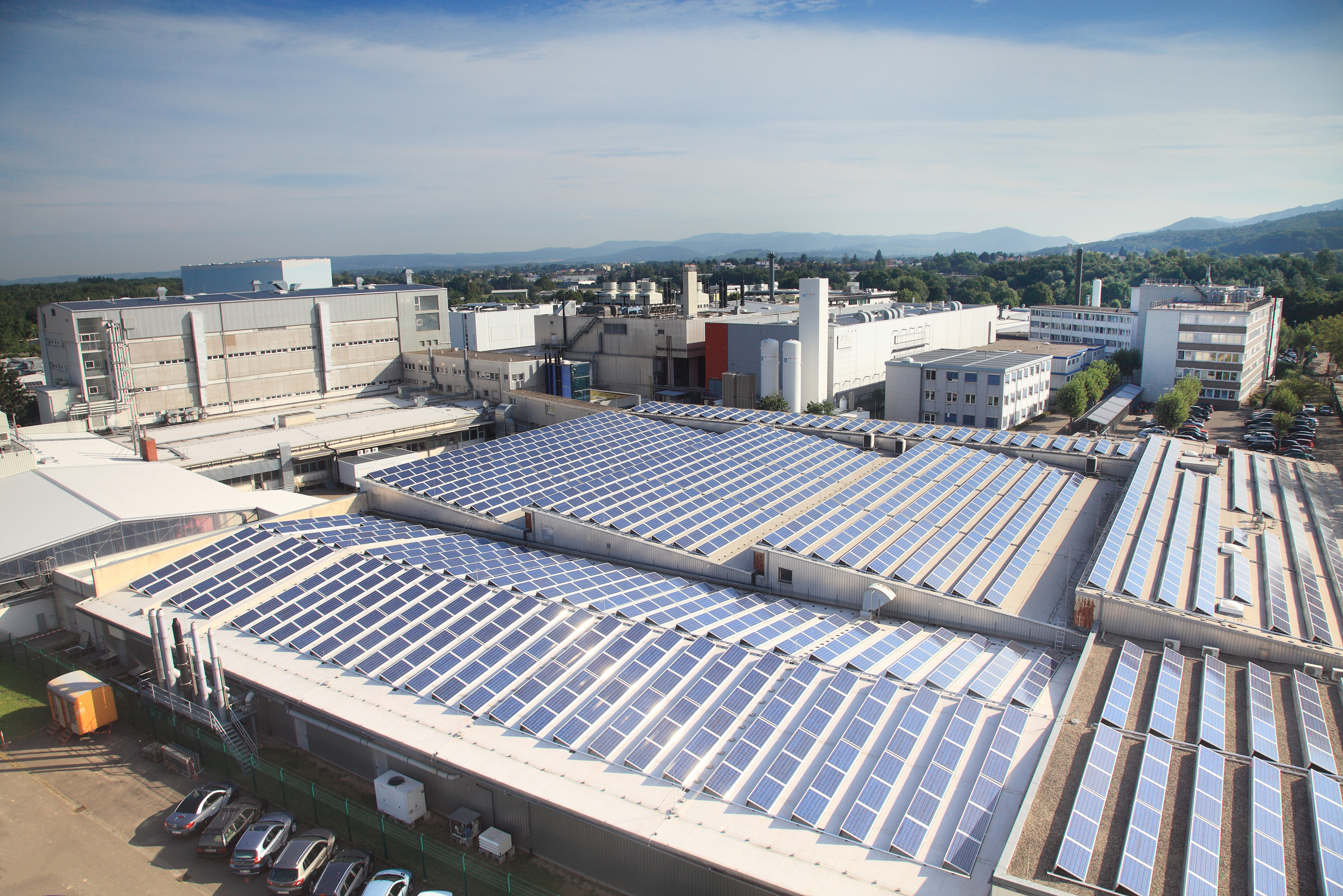 2000 sqmp photvoltaic system on the roofs of Micronas GmbH in Freiburg i.Br.